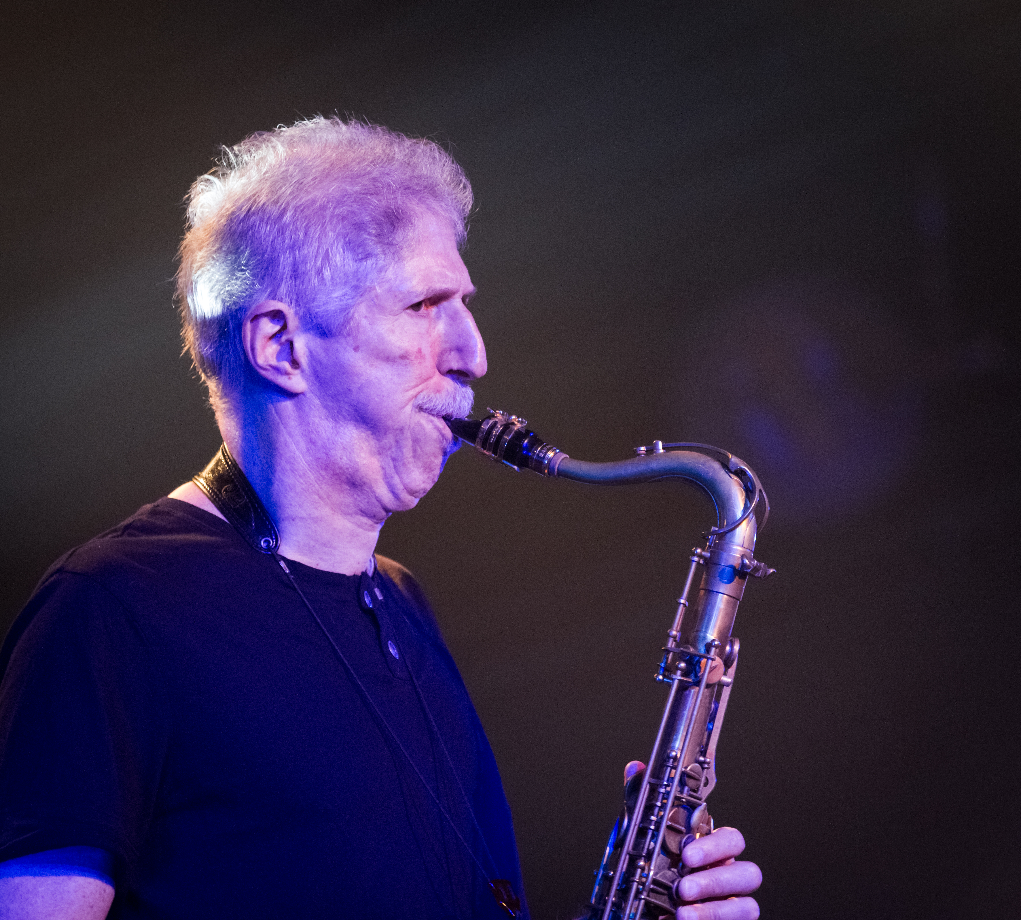 Bob Mintzer with Yellowjackets - Leverkusener Jazztage 2015